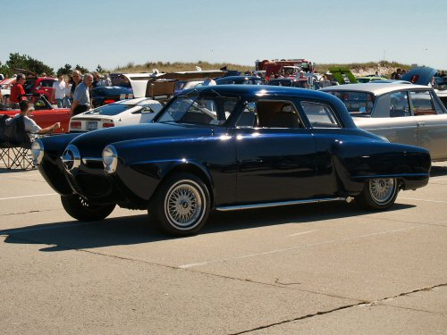 1950 Studebaker Champion